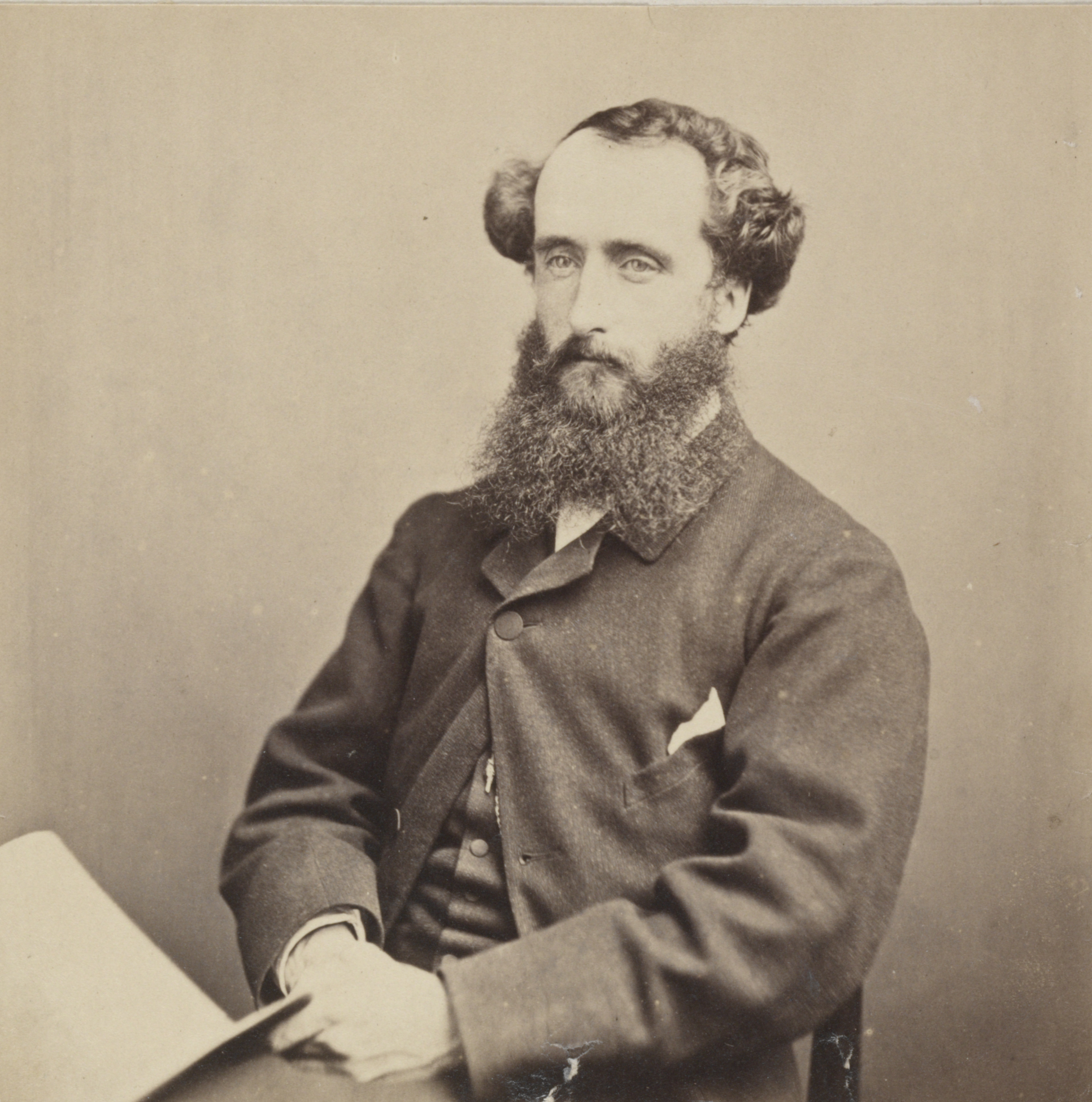 Alfred Howitt, the leader of the party to rescue Burke and Wills, circa 1861, from William Strutt album illustrating the Burke and Wills exploring expedition crossing the continent of Australia from Cooper's Creek to Carpentaria, Aug 1860-June 18611, State Library of New South Wales DL PXX 3